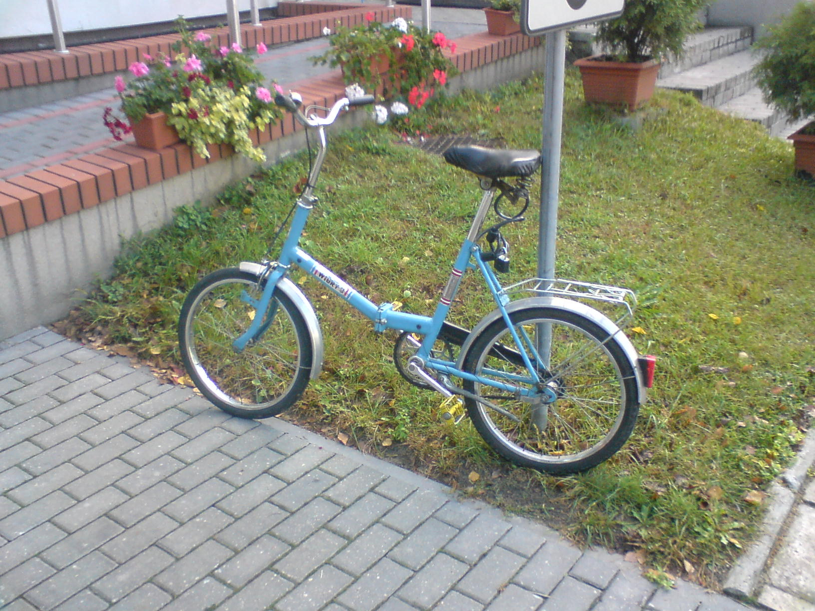 Polish bicycle - Wigry 3 made by Romet.